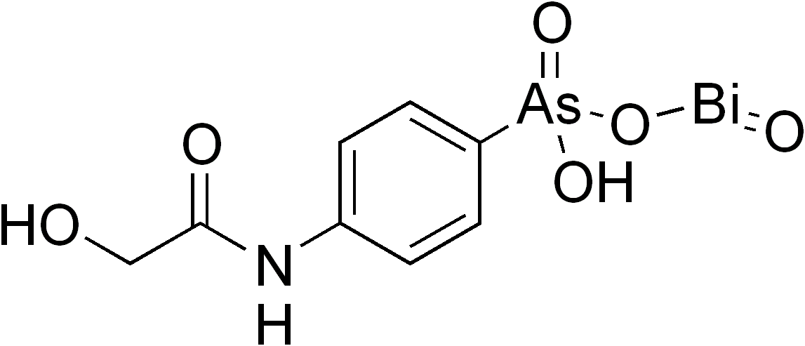 chemical structure of glycobiarsol